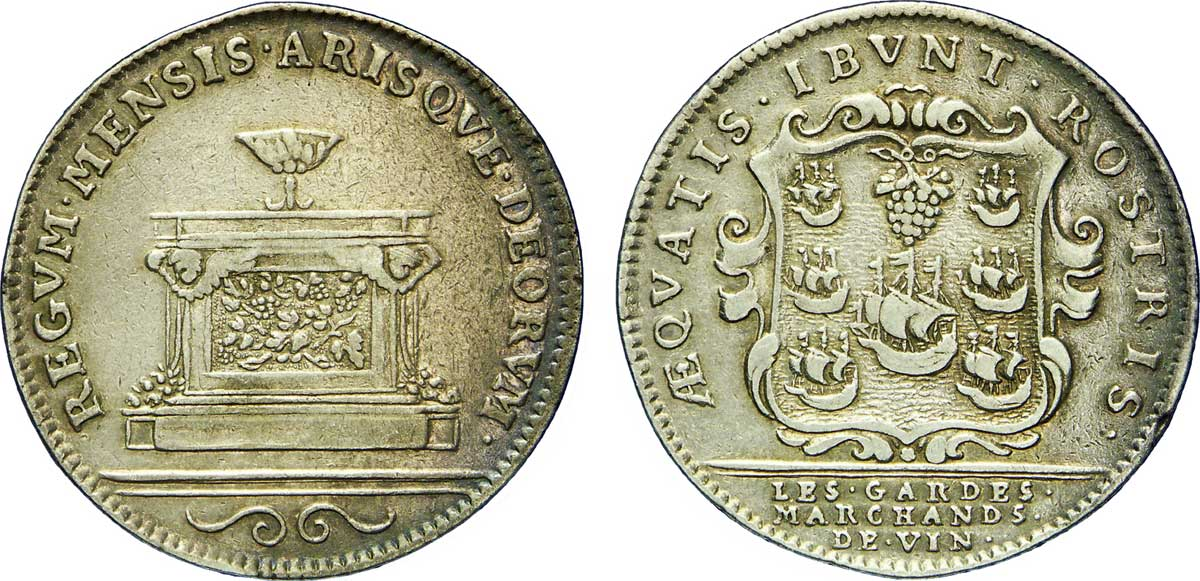 Corporation des marchands de vin et taverniers